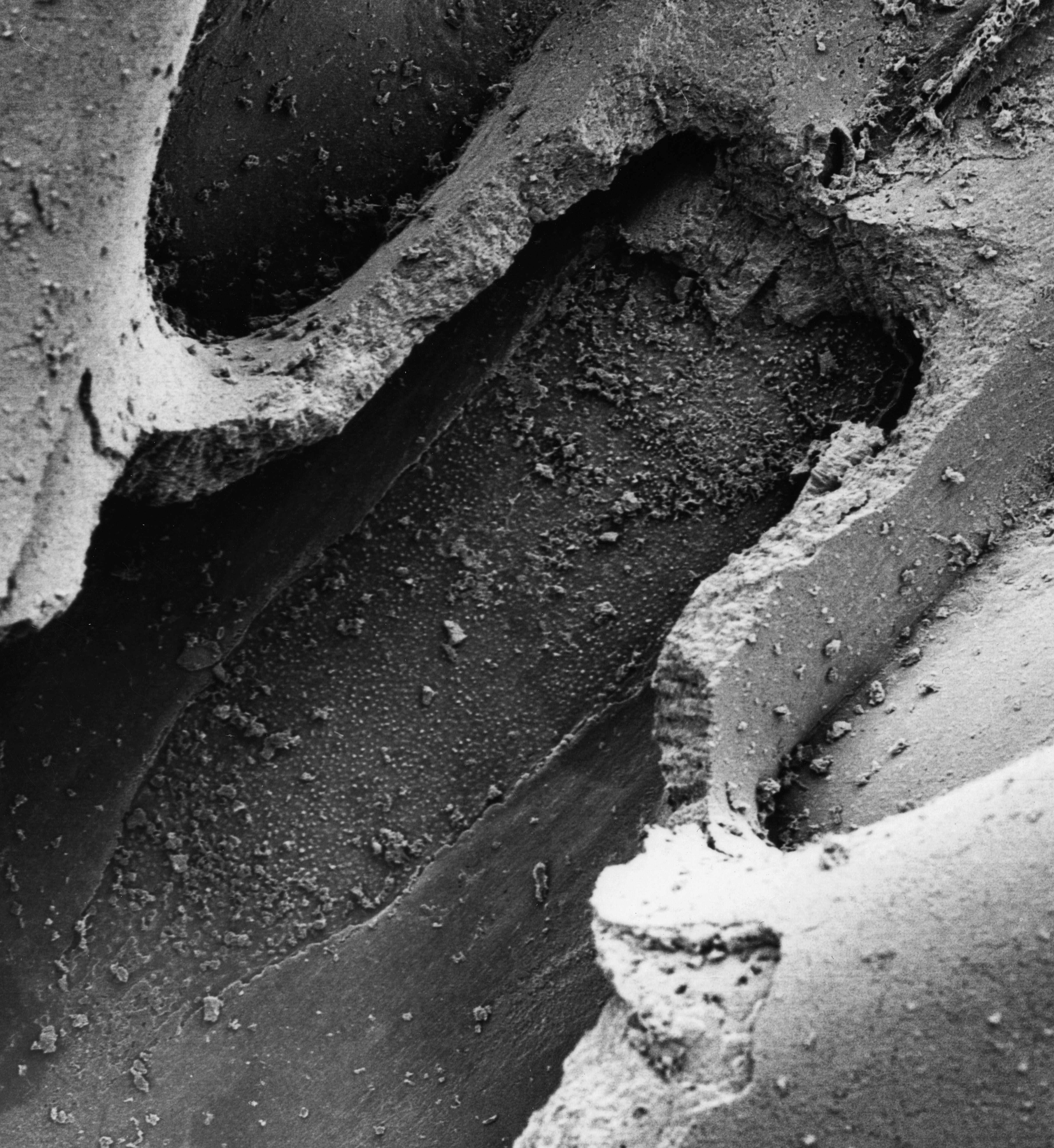 muscle attachment scars of Lobolytoceras siemensi.